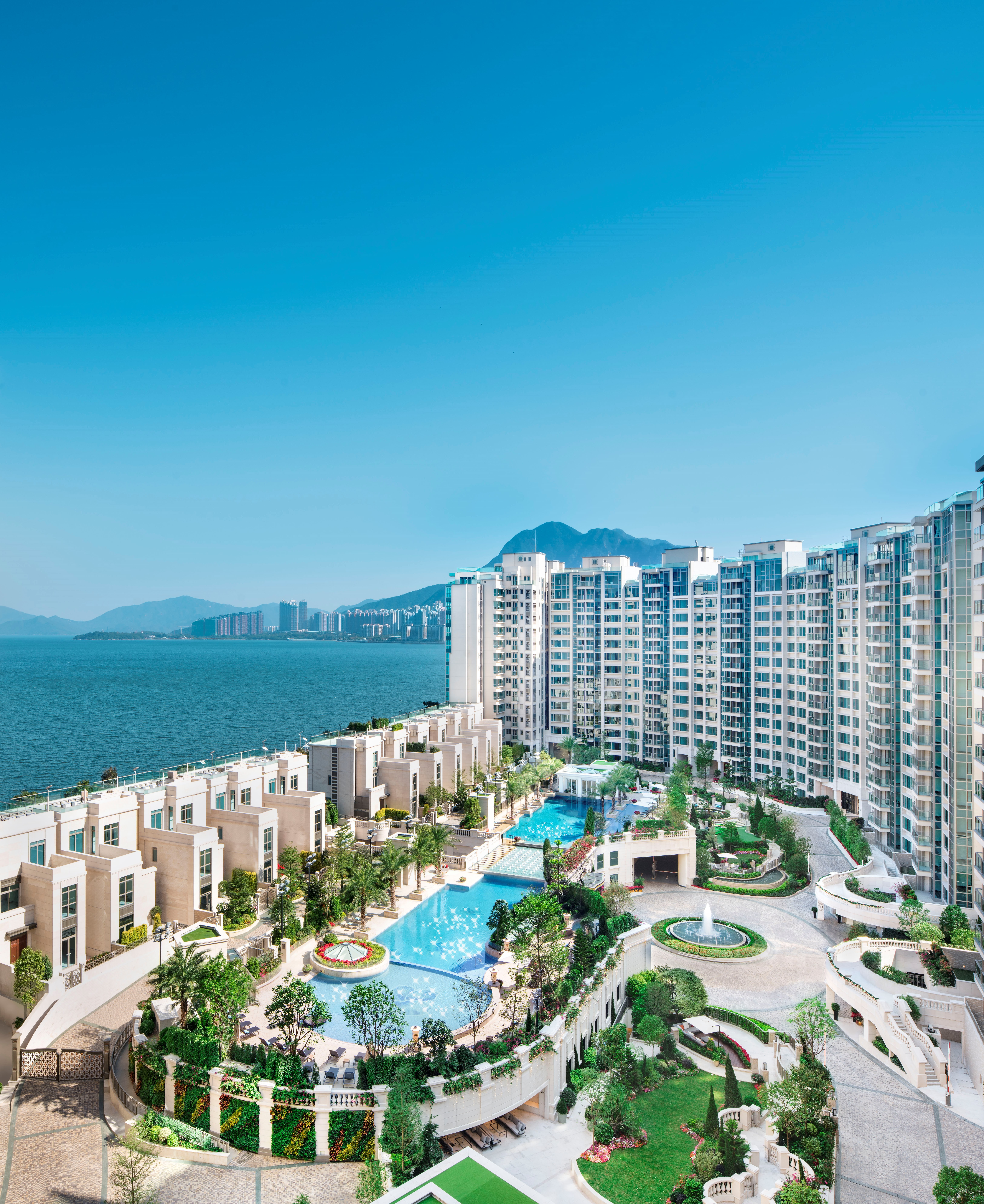 Mayfair By The Sea I & II